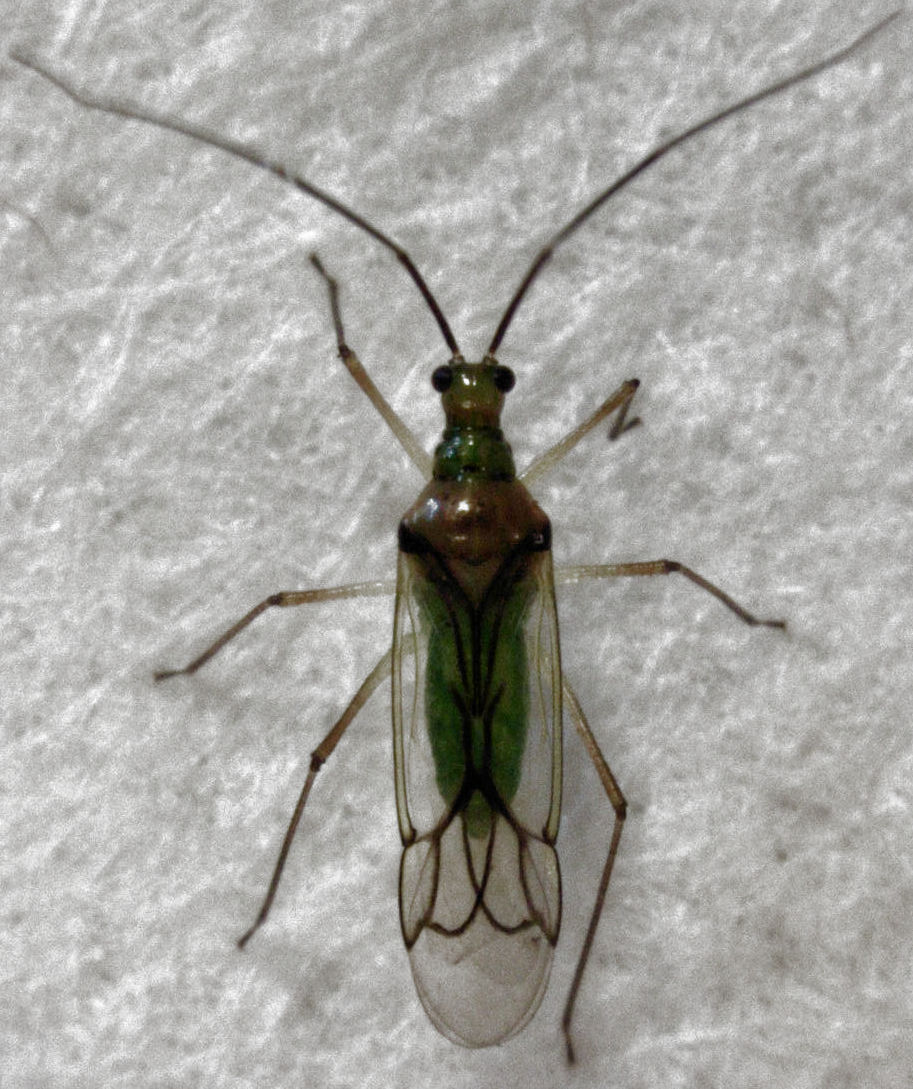 Felisacus elegantulus (live female, length about 4.6 mm)